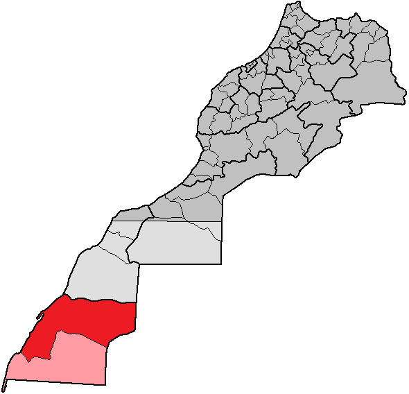 Location of the province Oued Ed-Dahab within the region Oued Ed-Dahab - Lagouira, Morocco. In total, Morocco has 16 regions, subdivided into 62 provinces and 13 prefectures.